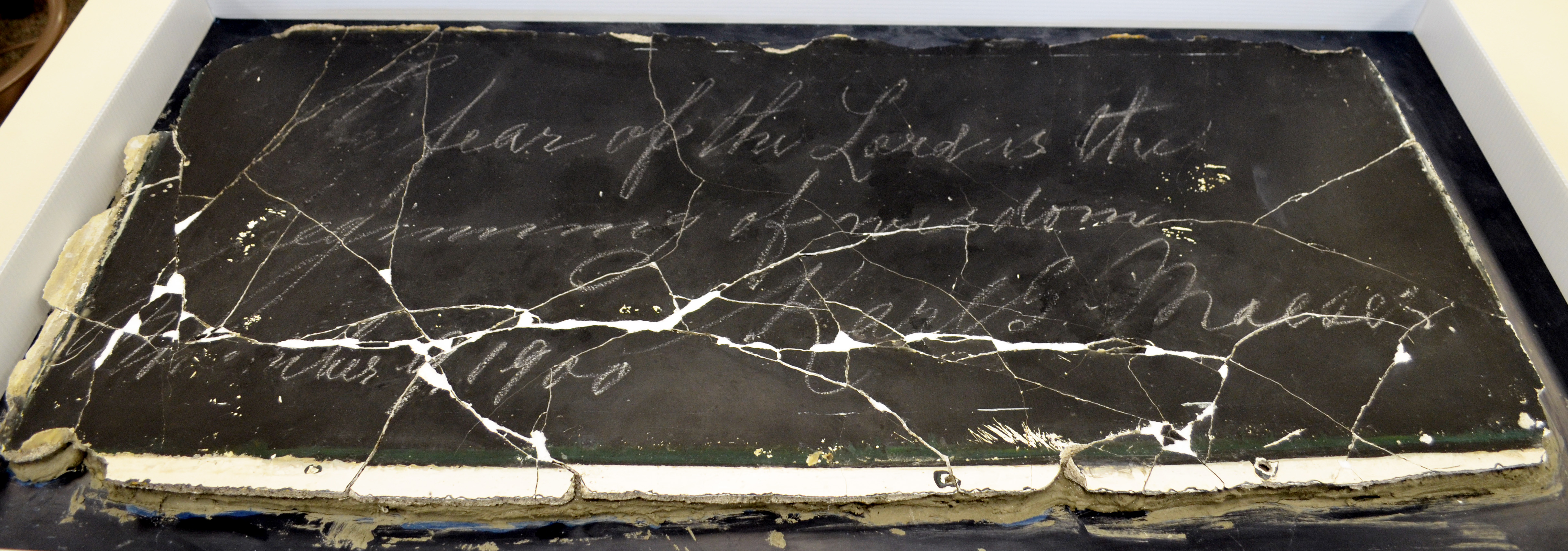 Karl G. Maeser's handwriting preserved on this chalkboard from the Maeser school in Provo.